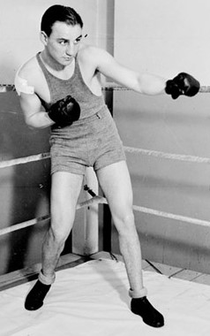 "Full-length portrait of pugilist Jackie Fields standing in a boxing stance in a corner of a boxing ring in a room in Chicago, Illinois, facing image right"